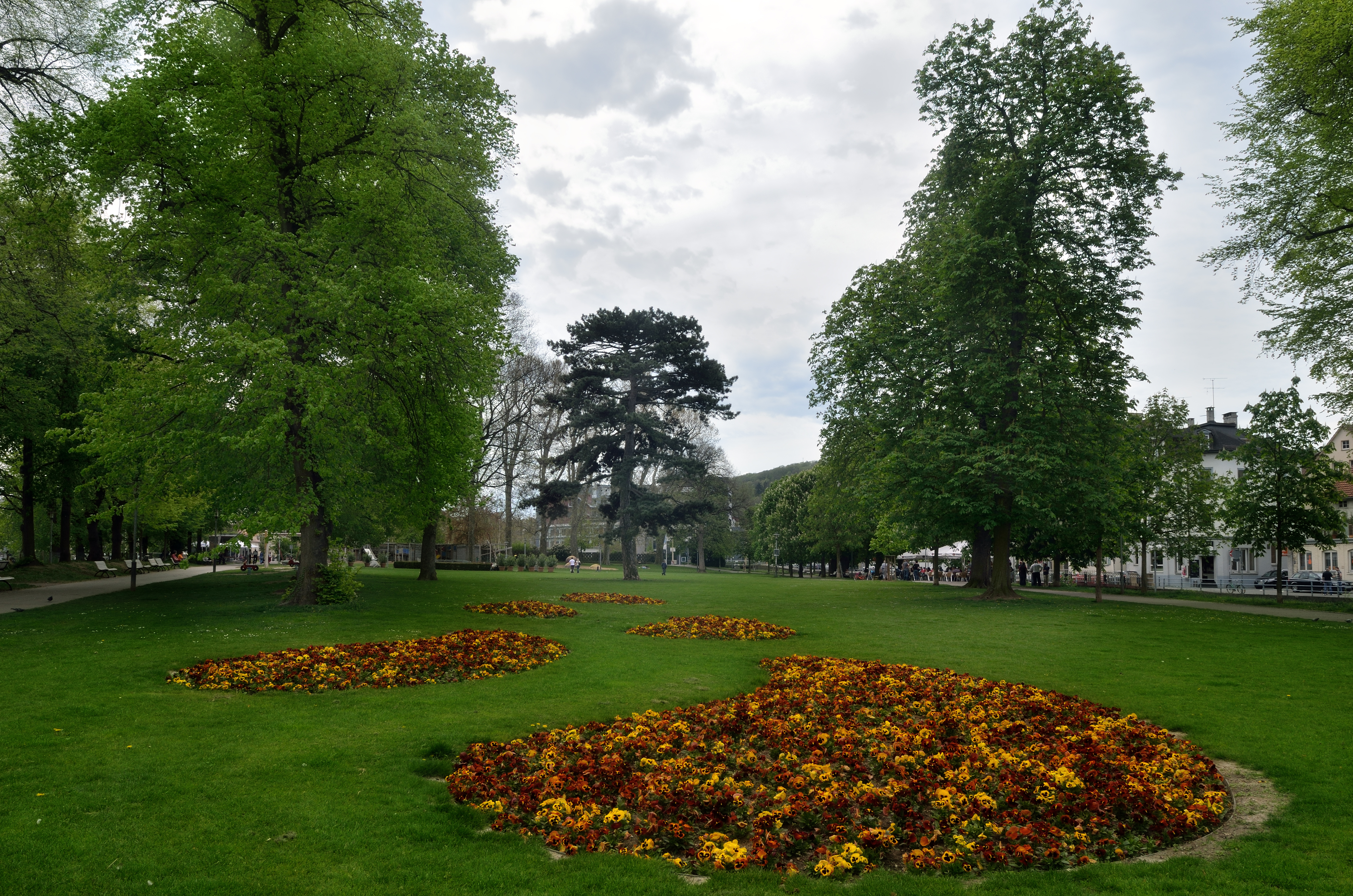 The Maille in Esslingen, Germany.